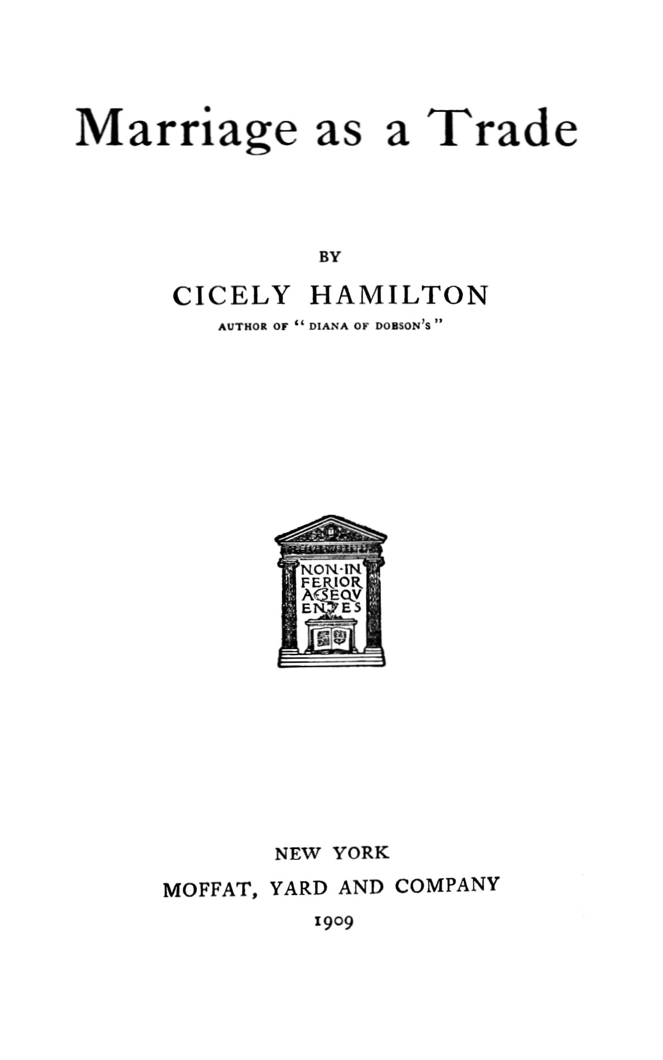 Marriage as a trade book - frontispiece